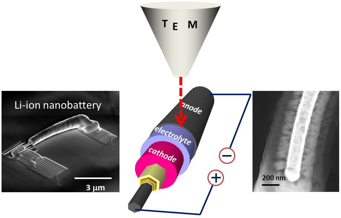 Using a transmission electron microscope, NIST reearchers were able to watch individual nanosized batteries with electrolytes of different thicknesses charge and discharge. The NIST team discovered that there is likely a lower limit to how thin an electrolyte layer can be made before it causes the battery to malfunction. Credit: Talin/NIST Disclaimer: Any mention of commercial products within NIST web pages is for information only; it does not imply recommendation or endorsement by NIST. Use of NIST Information: These World Wide Web pages are provided as a public service by the National Institute of Standards and Technology (NIST). With the exception of material marked as copyrighted, information presented on these pages is considered public information and may be distributed or copied. Use of appropriate byline/photo/image credits is requested.